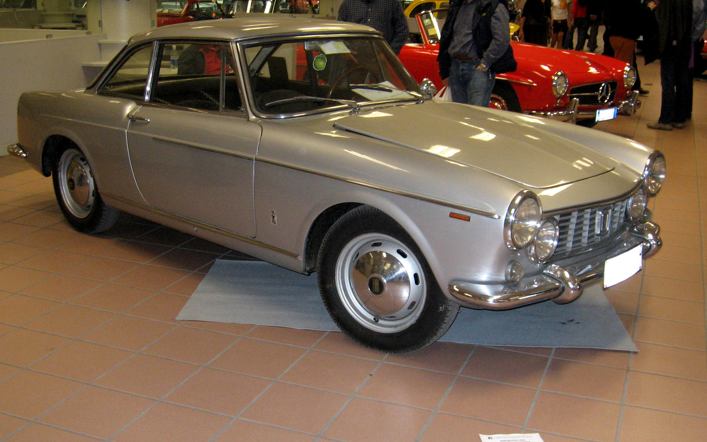 Subject: Fiat 1600 Coupé Author:Luc106 Date:18 march 2007 City/Country: Forlì (Italy) Event: Old Time Show I release all rights in the public domain.